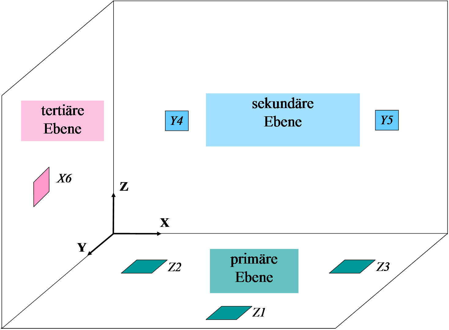 Dimensional Management